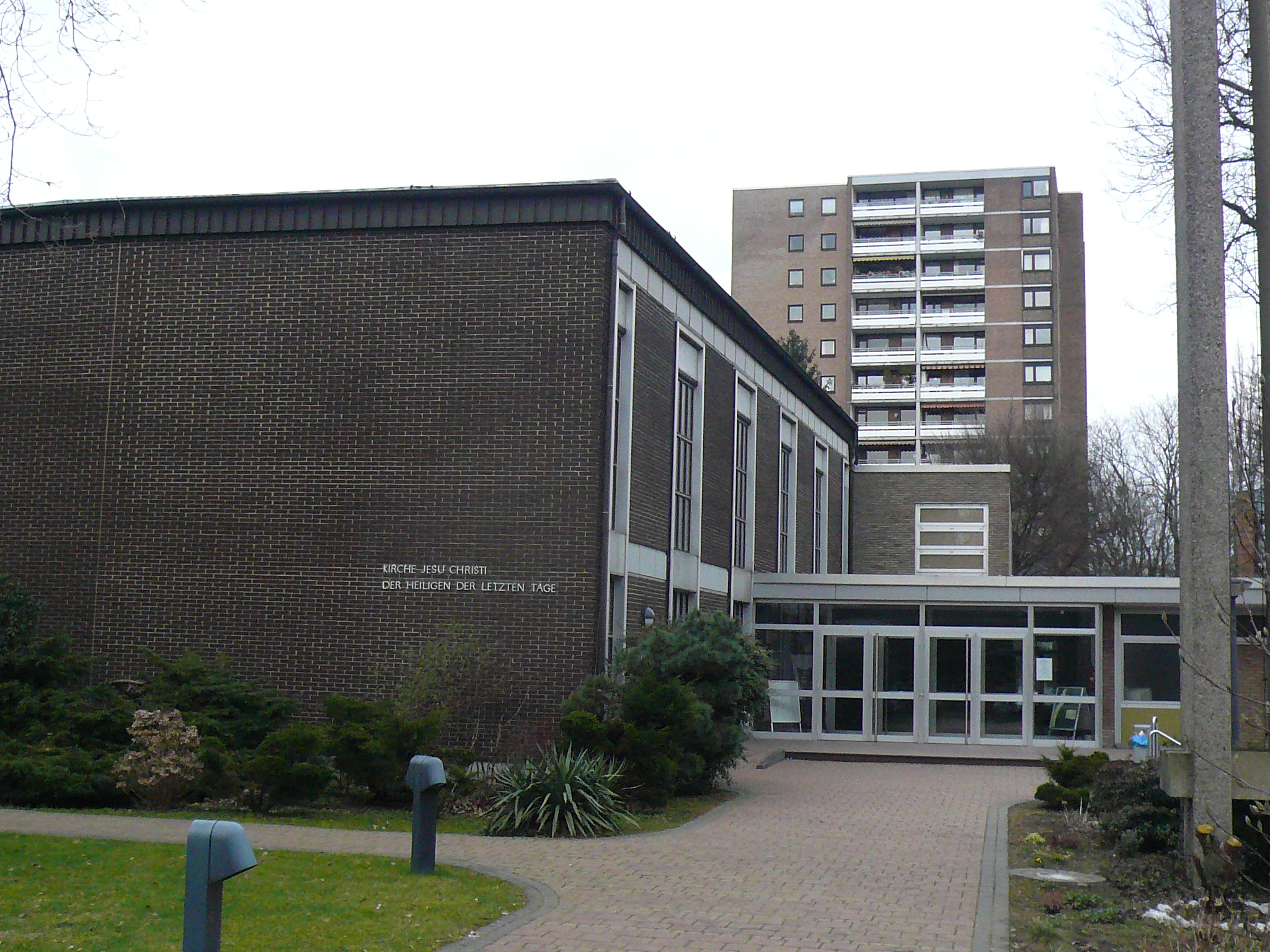 Meetinghouse of The Church of Jesus Christ of Latter-day Saints in Düsseldorf-Mörsenbroich, Germany